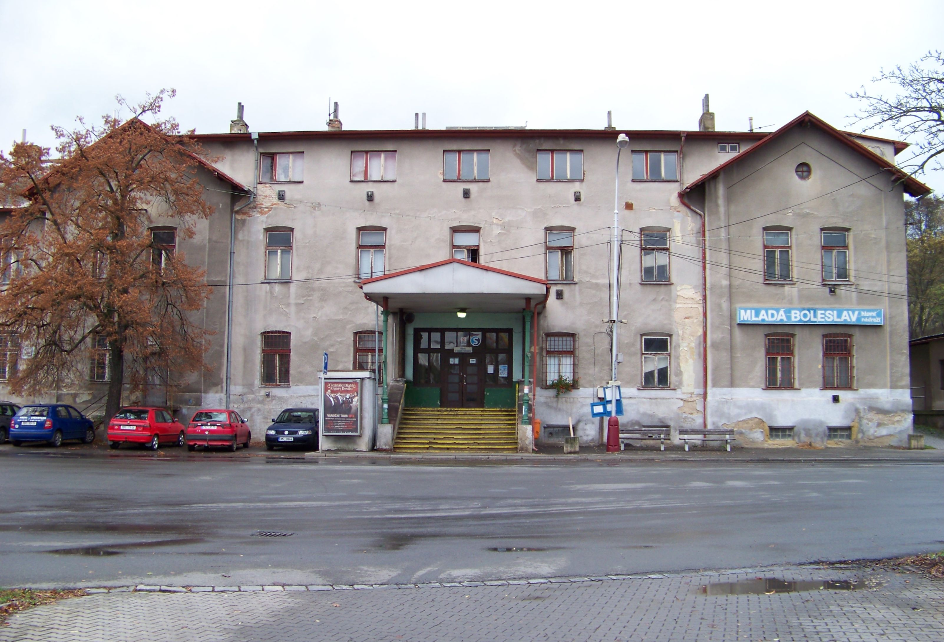 Mladá Boleslav-Čejetičky, Mladá Boleslav District, Central Bohemian Region, Czech Republic. Nádražní street, a train station Mladá Boleslav hlavní nádraží. s - Google Maps - Google Earth